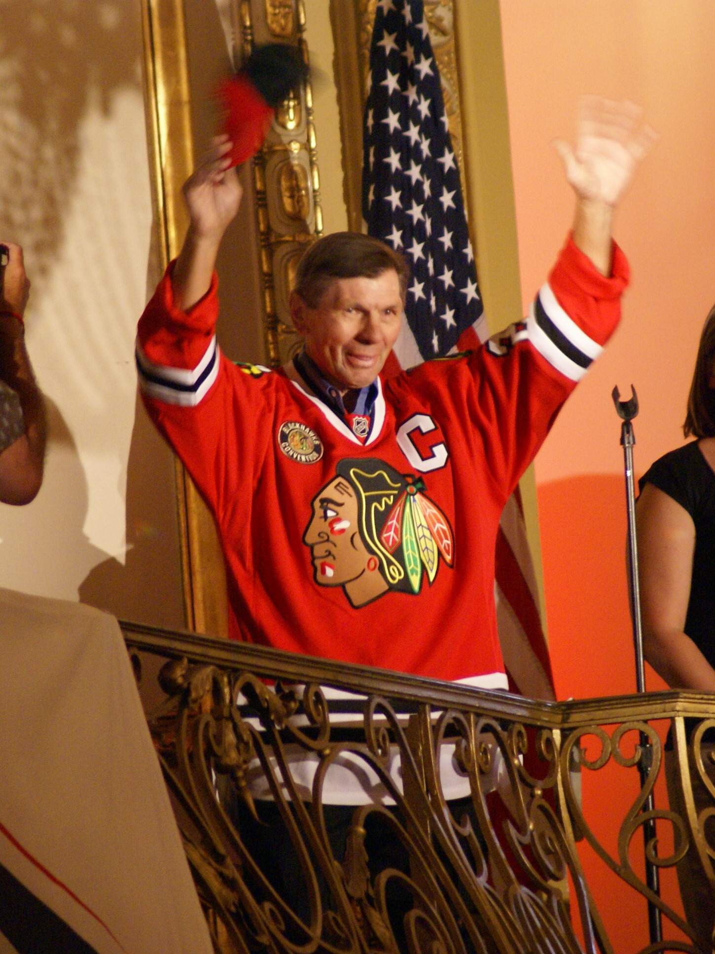 Stan The Man 2009 Blackhawks Convention Opening Ceremony